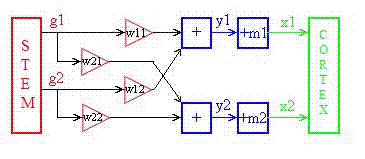 Showing a neural network executing the Gaussian adaptation algorithm (as a model of phenotypic evolution as well as an evolution of signal patterns in the brain). The algorithm obeys the Hebbian rule of associative learning.